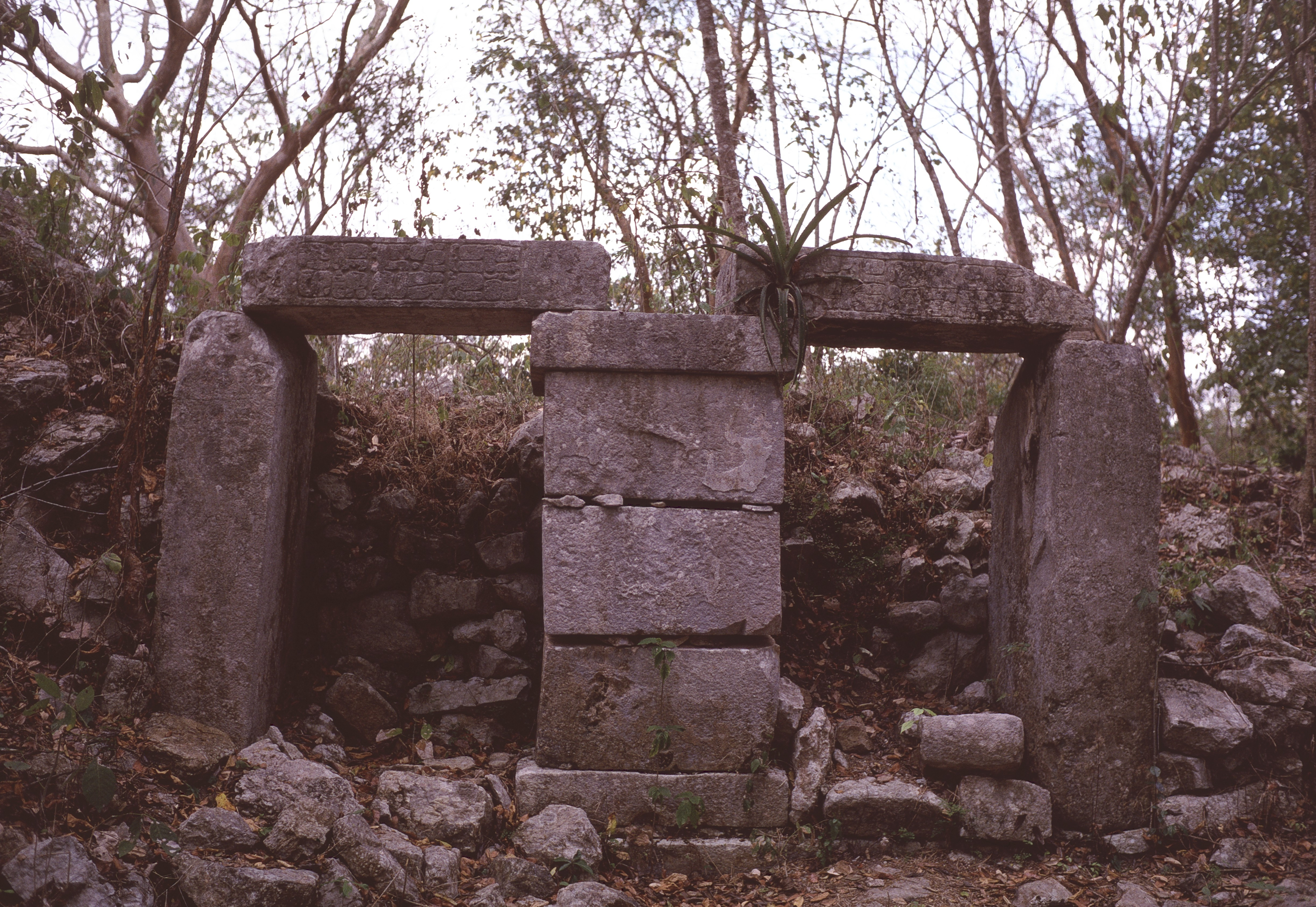 Chichen Itza, Yucatan, Mexico: Templo de los cuatro dinteles